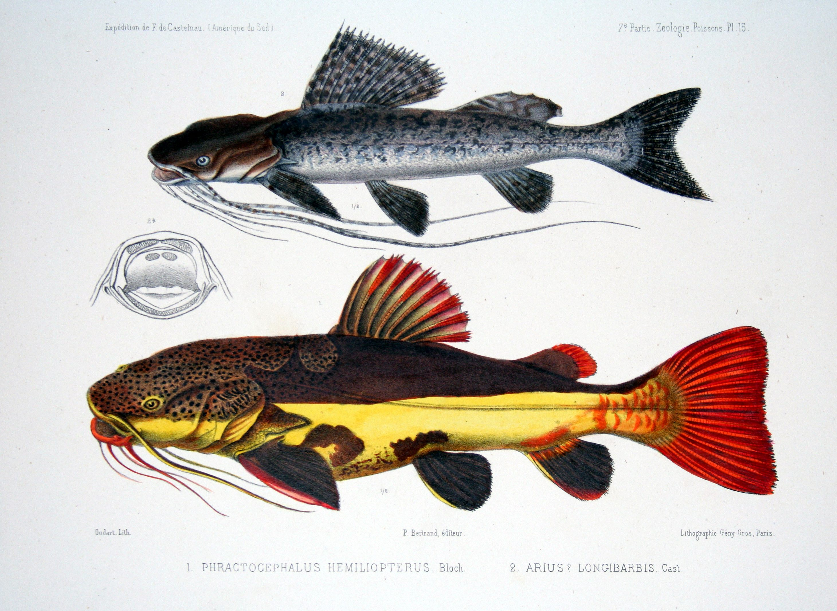 From top to bottom: Arius? longibarbis = Leiarius longibarbis (2a: mouth) Phractocephalus hemiliopterus = Phractocephalus hemioliopterus